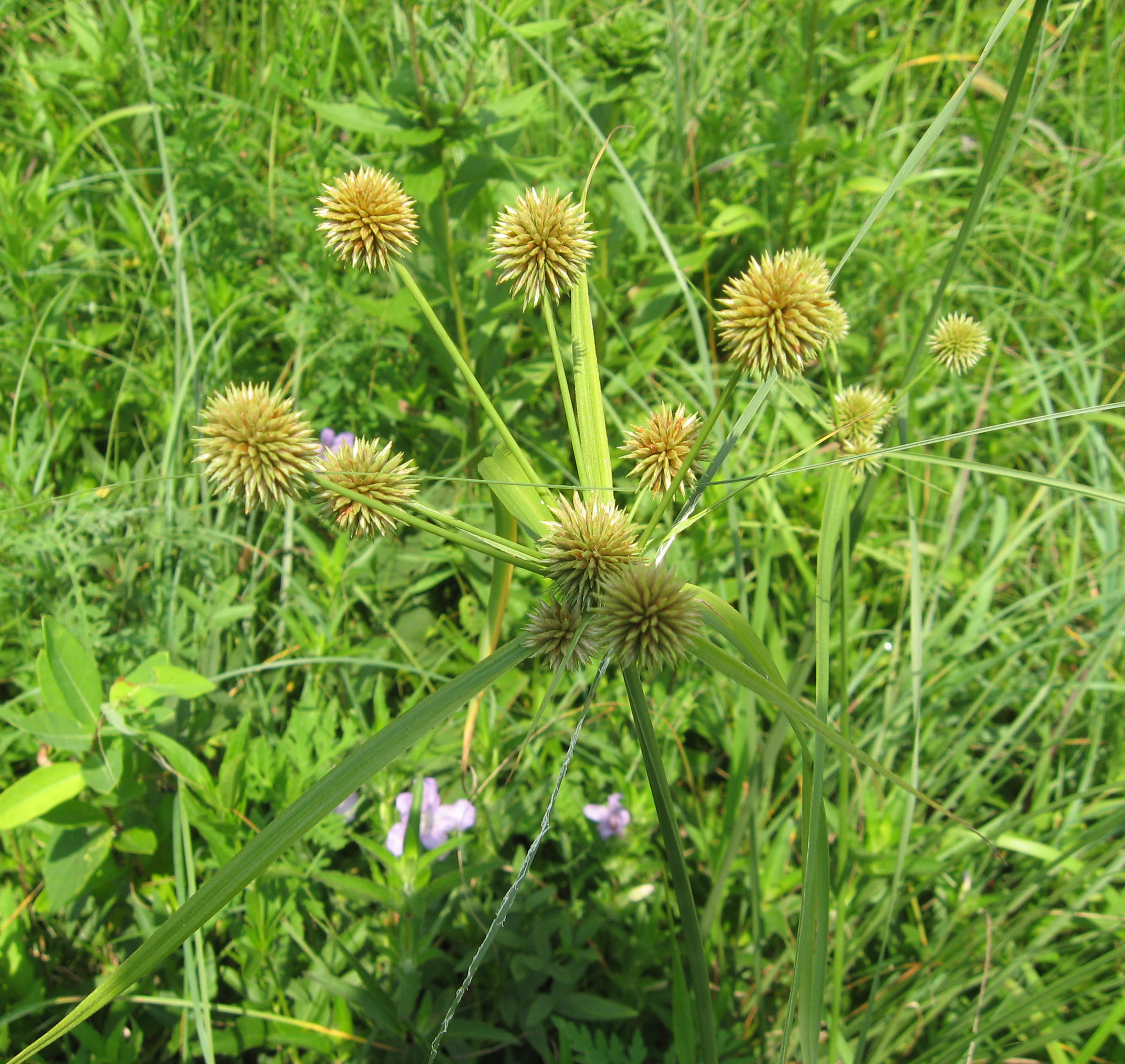 Cyperus echinatus, found in Baker Prairie, Logan County, Kentucky.